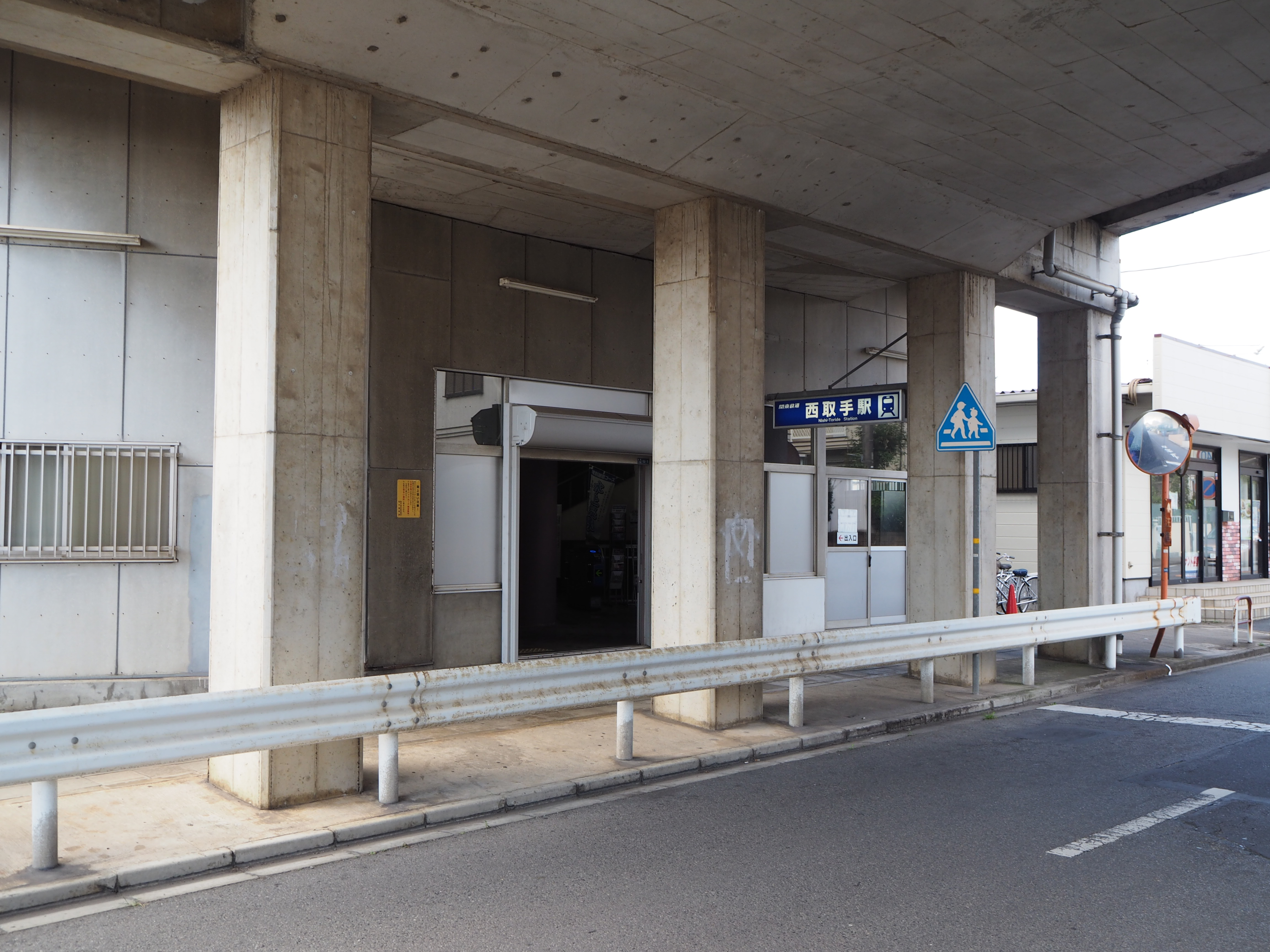 Entrance of Nishi-Toride Station